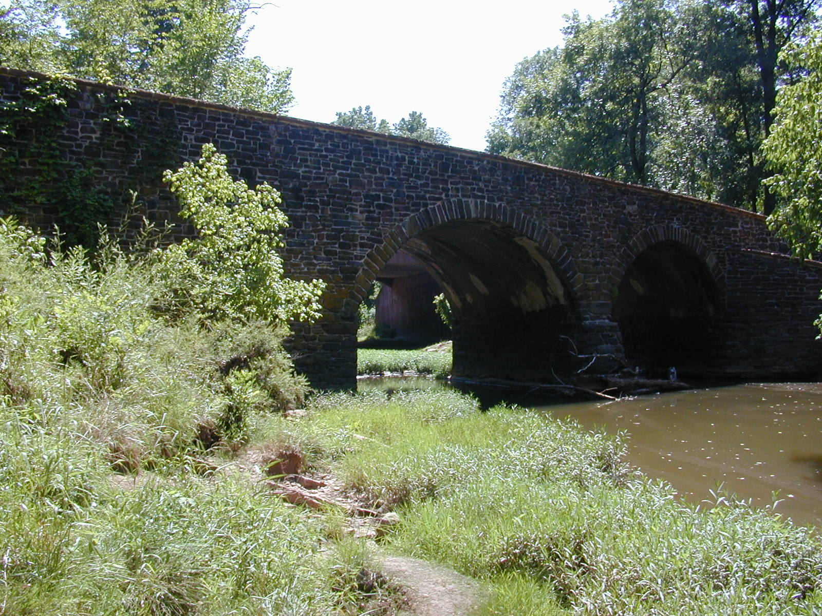 Stone Bridge across Bull Run